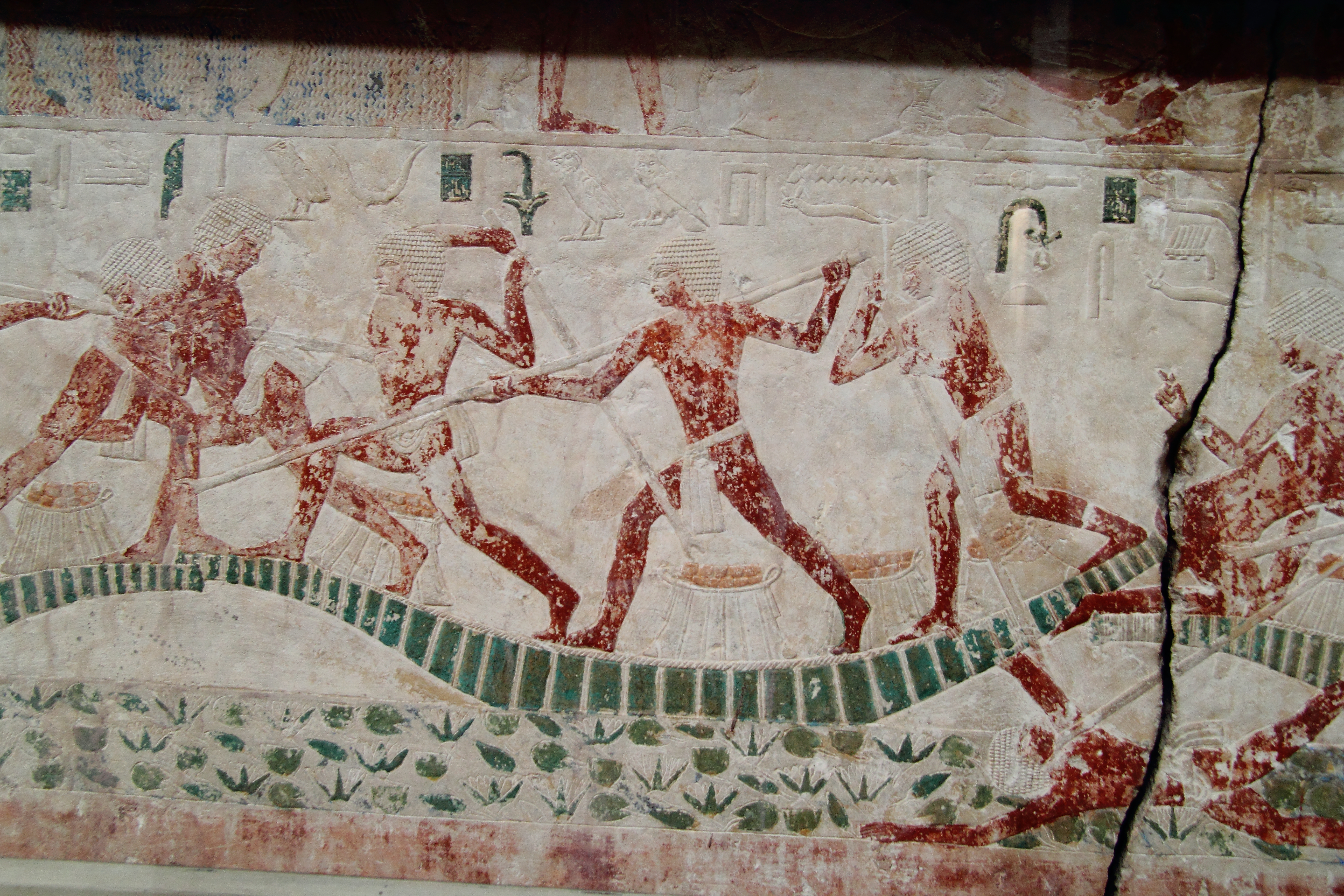 Egyptian Museum, Cairo: limestone relief with an scene of fighting boat crews and hieroglyphs from an unknown tomb in Saqqara, 5th dynasty of the Old Kingdom of Egypt, JE 30191, CG 1535 (see the Italian article Competizione sportiva (JE 30191)